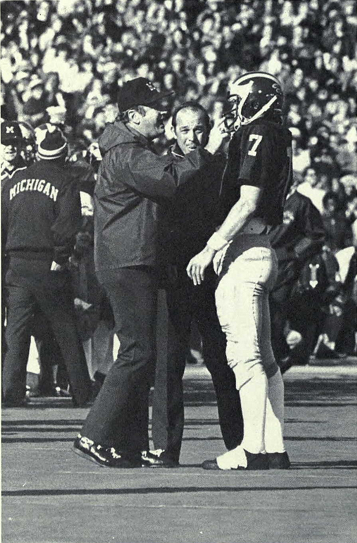 Photograph of Bo Schembechler and Rick Leach (No. 7).